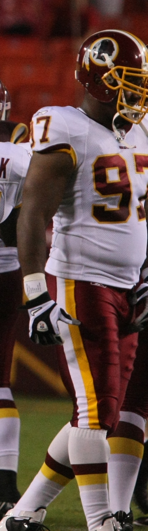 Washington Redskins players pregame